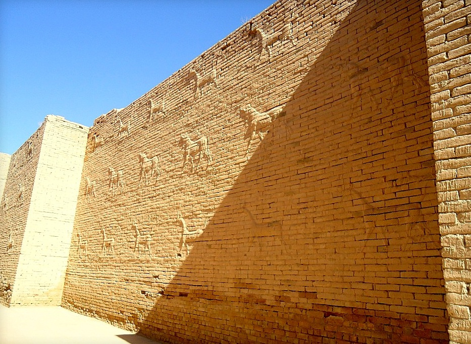 This wall is part of the processional street at the ancient city of Babylon, Mesopotamia, Iraq. Mušḫuššu and aurochs can be seen on the wall as reliefs. Neo-Babylonian period, reign of Nebuchadnezzar II, 605-562 BCE.